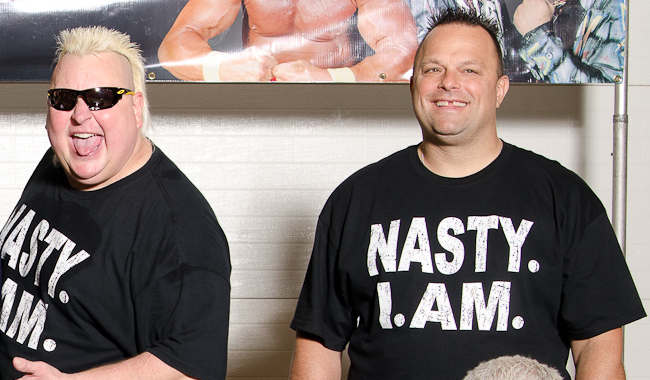 The Nasty Boys in Allentown, PA at the Hulk Hogan & friends event.